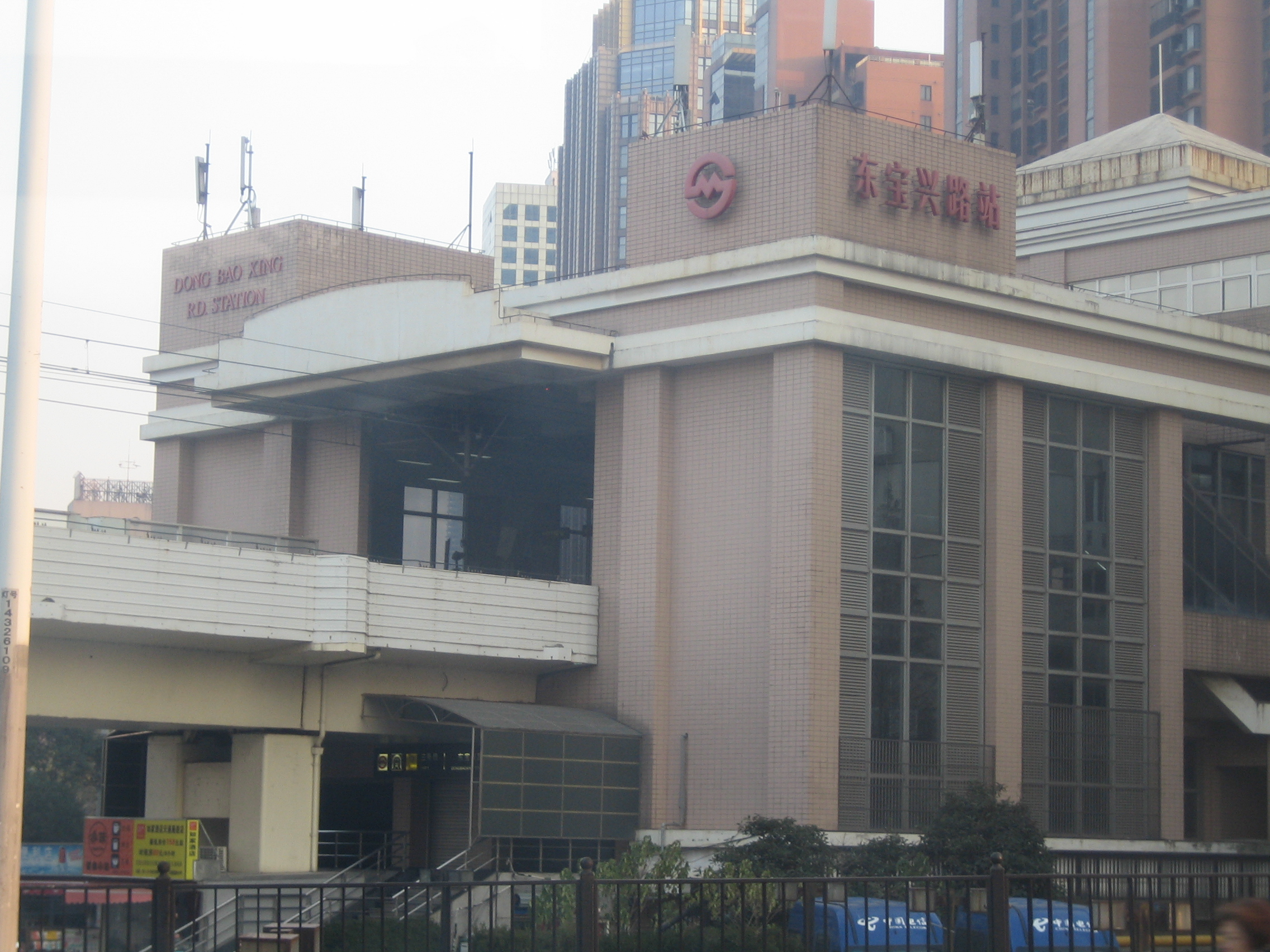 The entrance of Dongbaoxing Road Station.